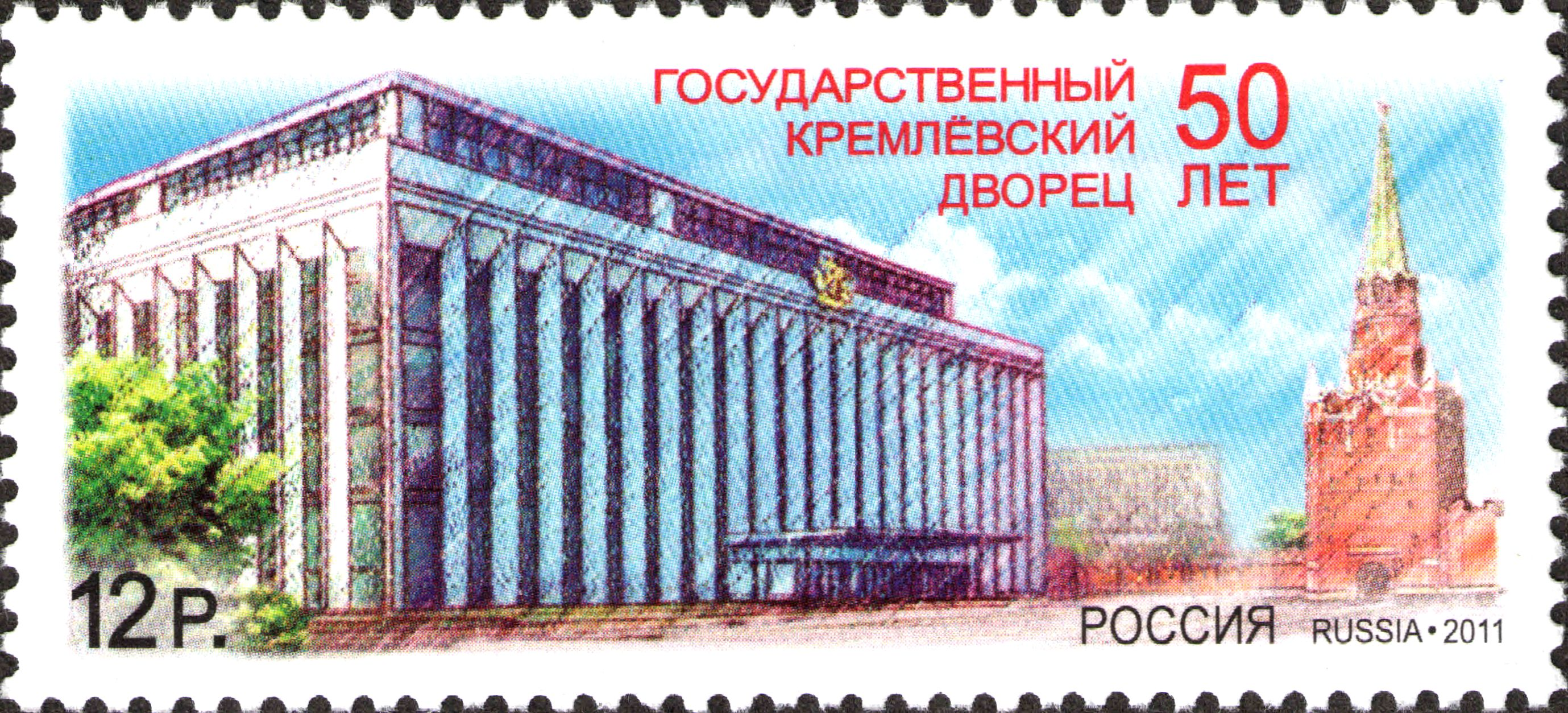 50th anniversary of the State Kremlin Palace. The stamp of Russia, 12.00 Rubles, 24th October 2011, Catalogue of PTC Marka # 1534.